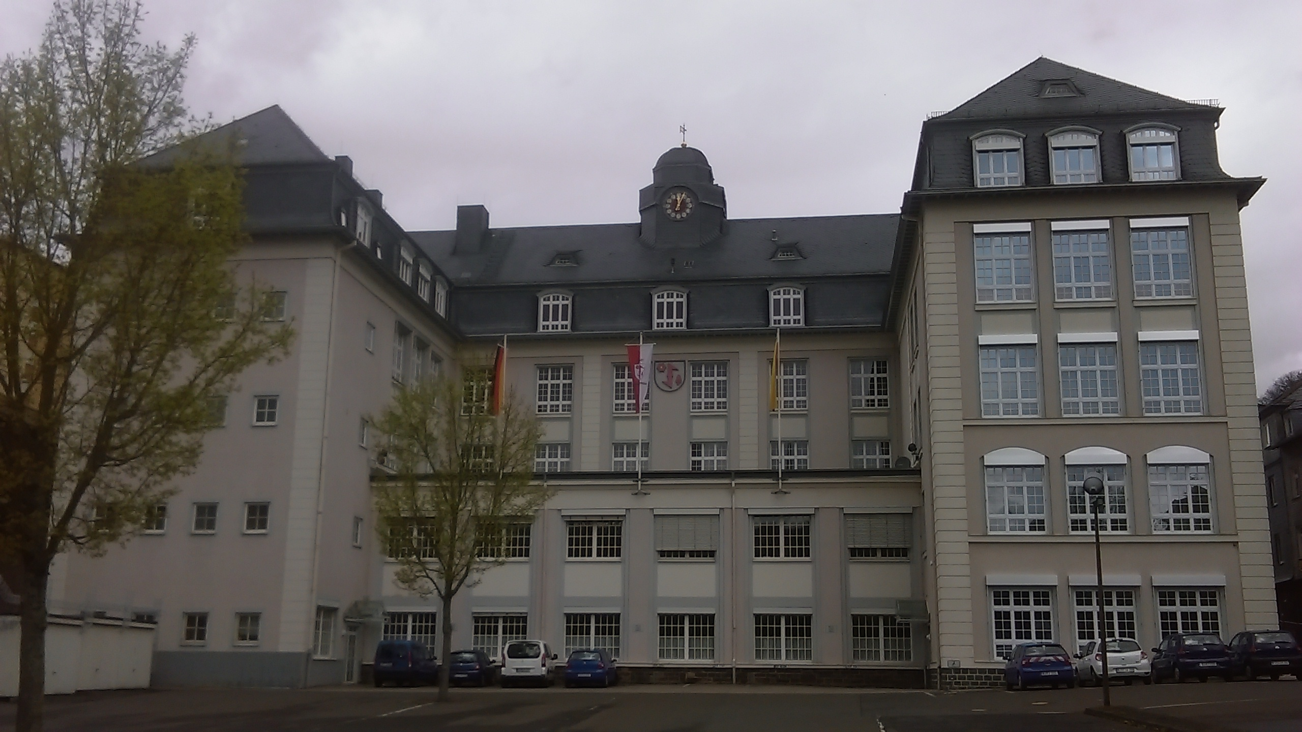 City administration of Idar-Oberstein